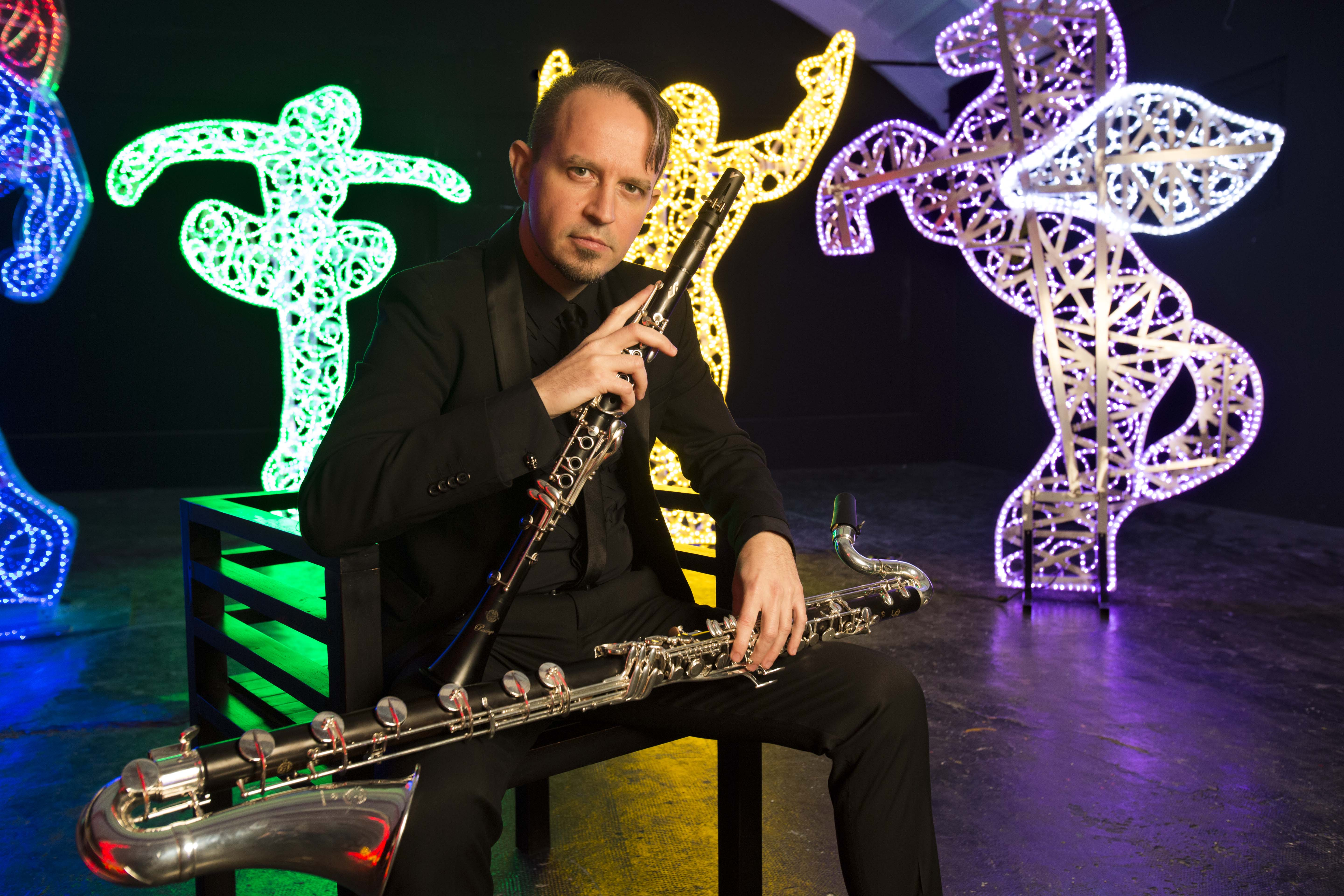 Portrait of clarinettist Michele Marelli, by Roberto Masotti showing on the background some sculptures by artist Marco Lodola.